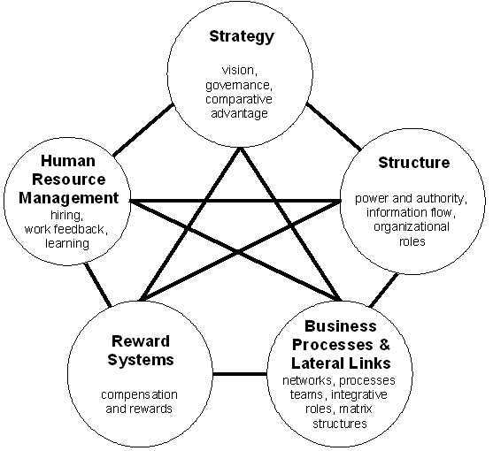 Miroslav Žugaj & Markus Schatten in Arhitektura suvremenih organizacija, Tonimir, Varaždinske Toplice, 2005.